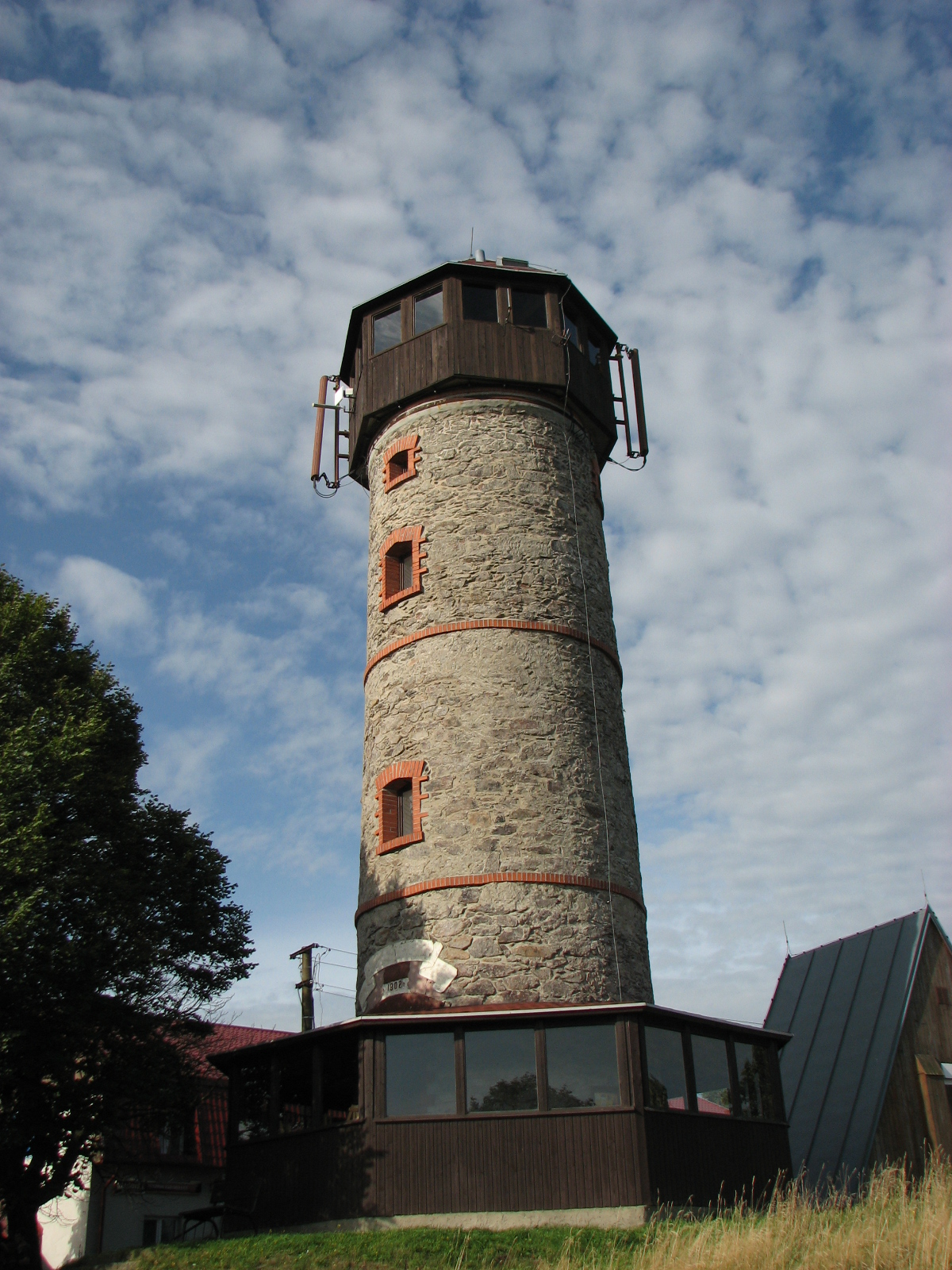 Hora Svate Kateriny viewing tower